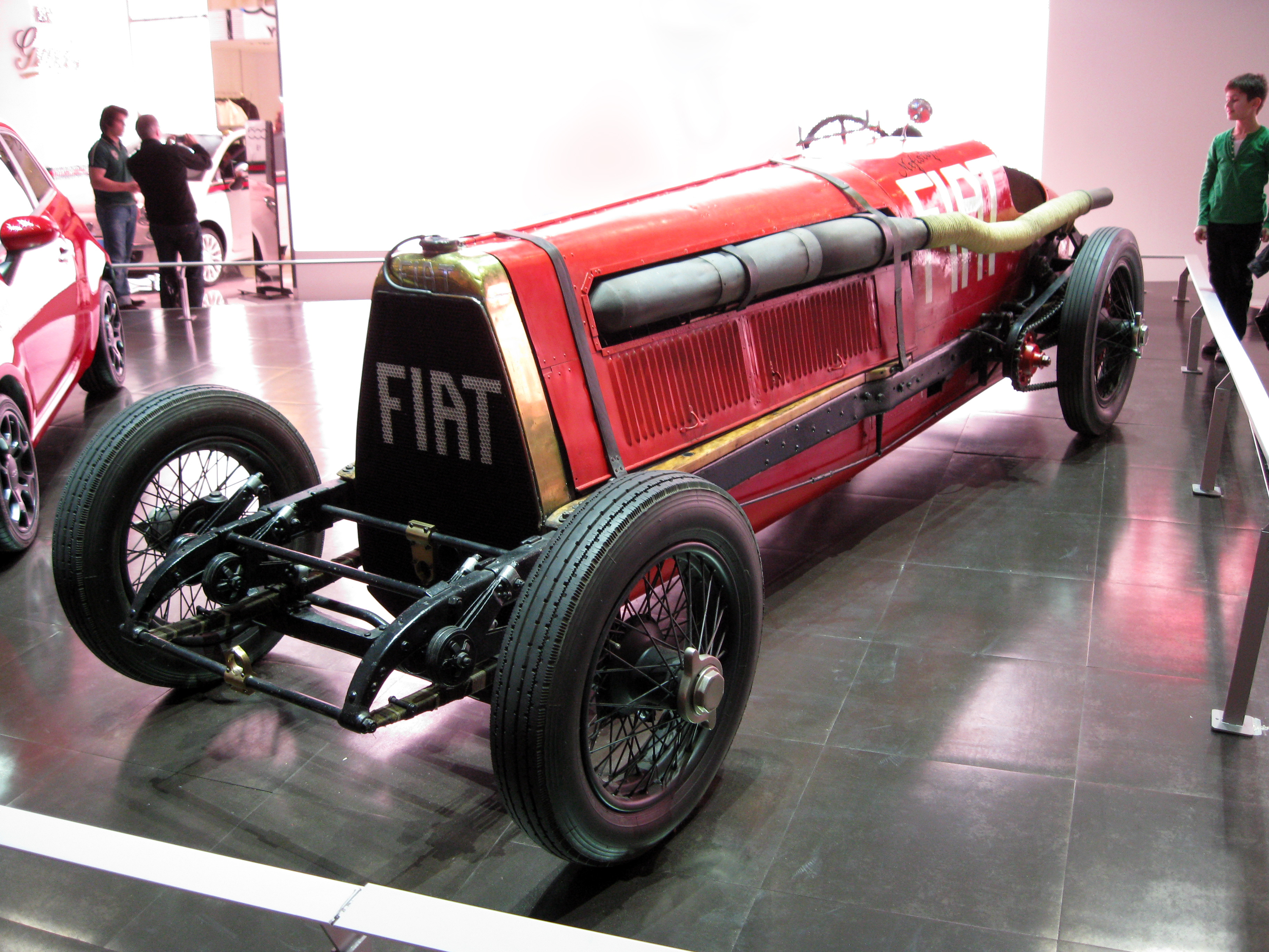 Fiat Mefistofele (based on a model Fiat SB4), front view, Geneva Motor Show 2011